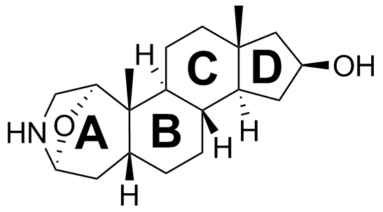 Labeled fused ring system in samandarin